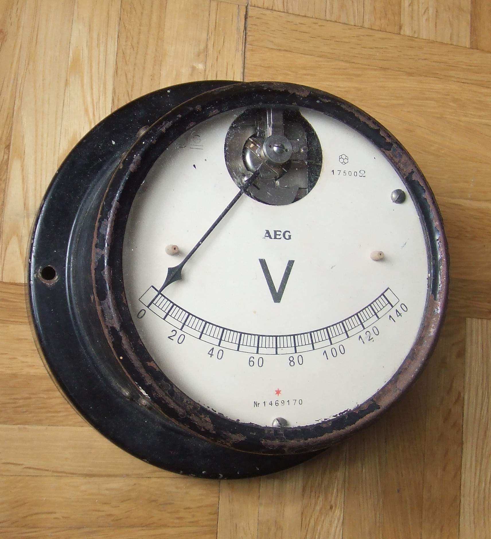 Volt-metre by AEG. Propably designed by Peter Behrens. Item is part of my personal design collection